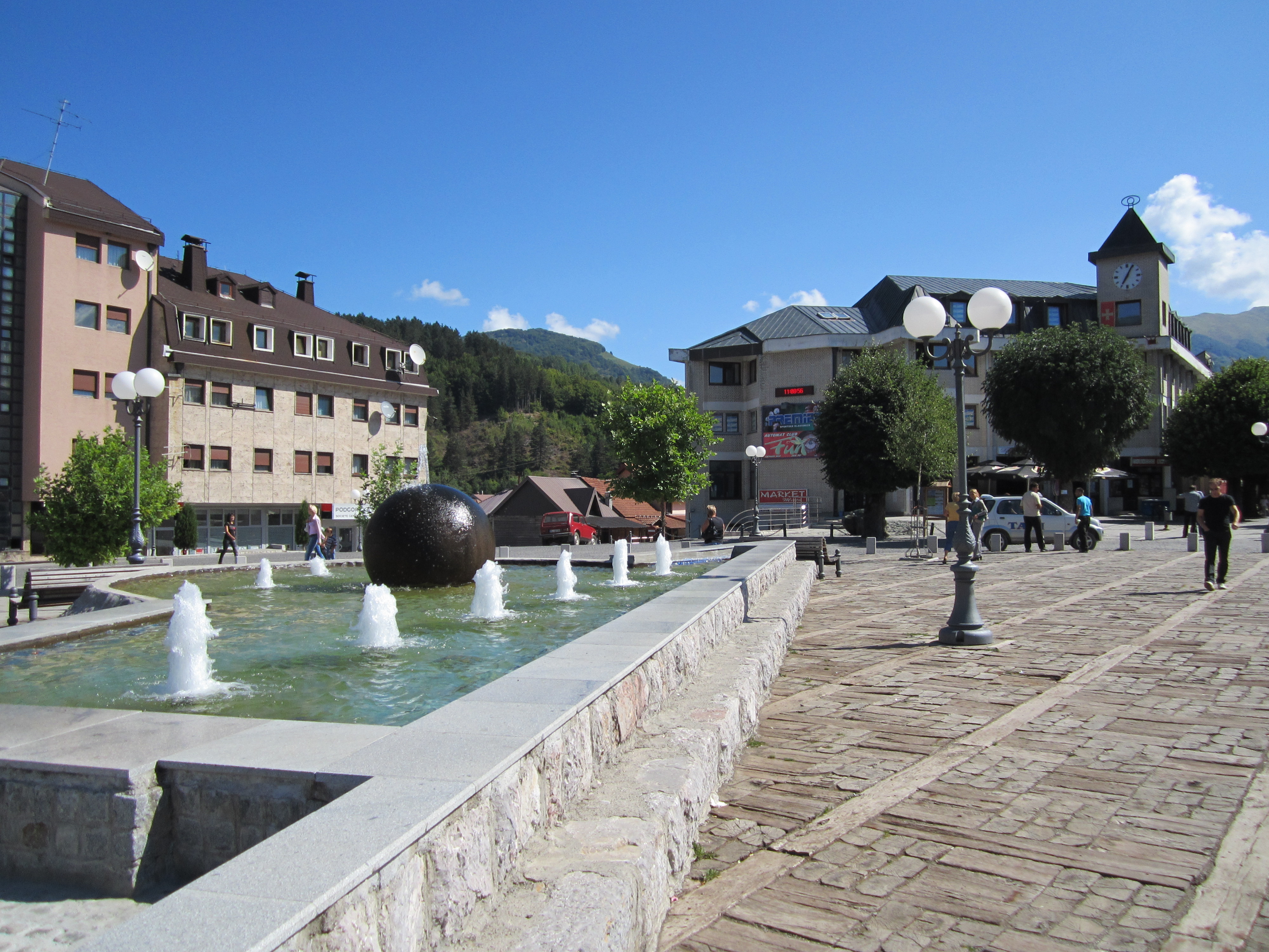 Kolašin Town Center